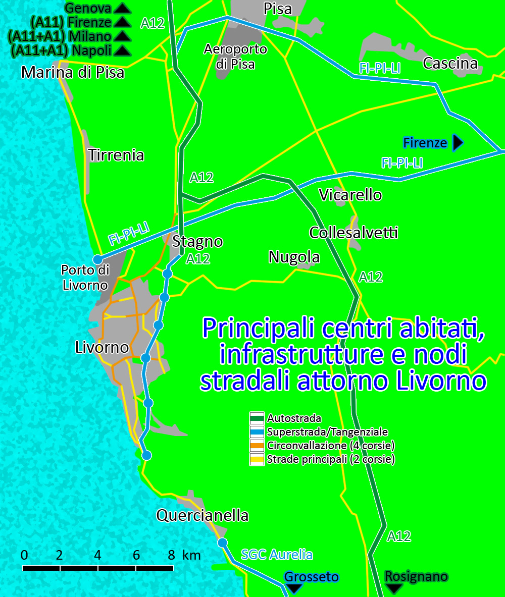 This map shows main cities, harbours, airports highways and others main roads around the city of Livorno, Toscana.